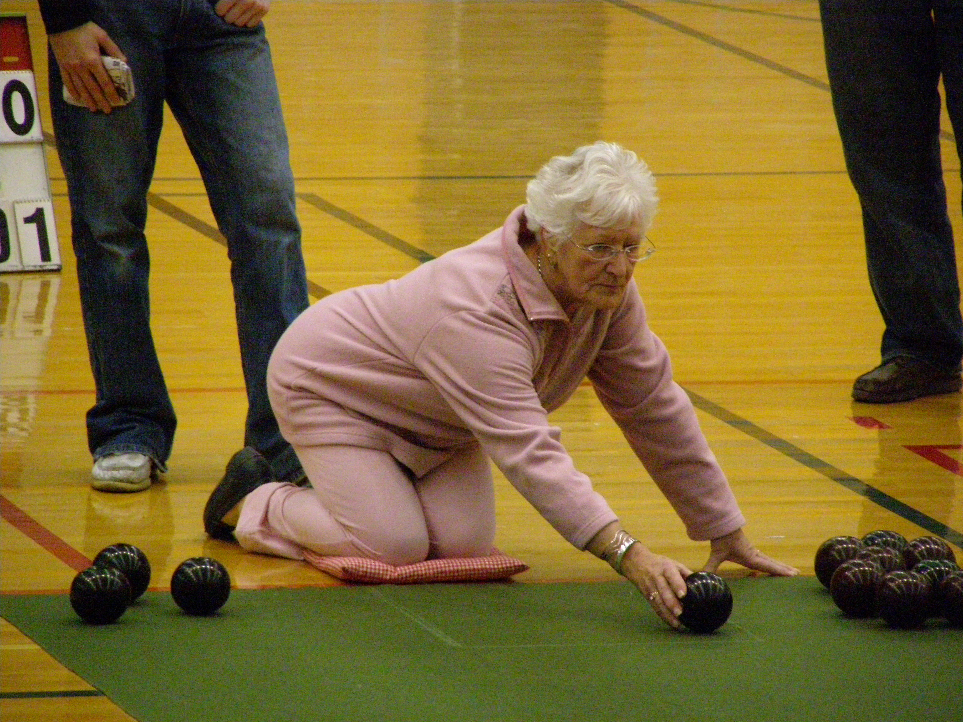 A picture demonstrating style of delivery of an indoor bowl at the semi finals of the 07' nationals